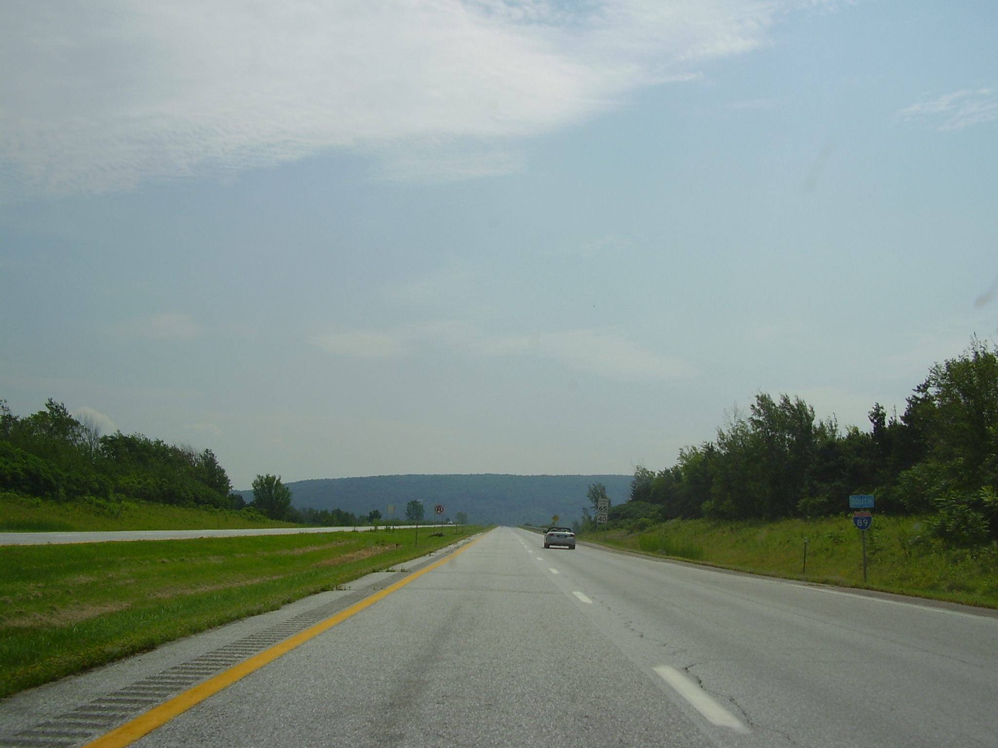 Interstate 89, southbound, not far from the United States-Canada border.